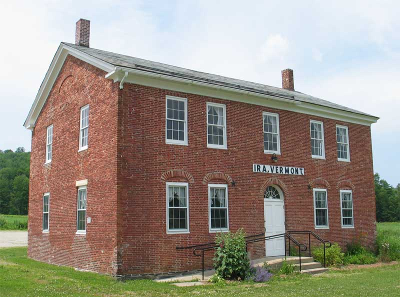 Photograph of Ira town offices.